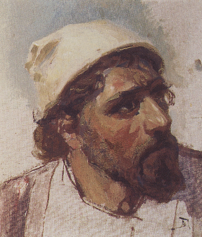 Head of Christ (study by Vasily Polenov for the 1888 painting "Christ and the woman taken in adultery")